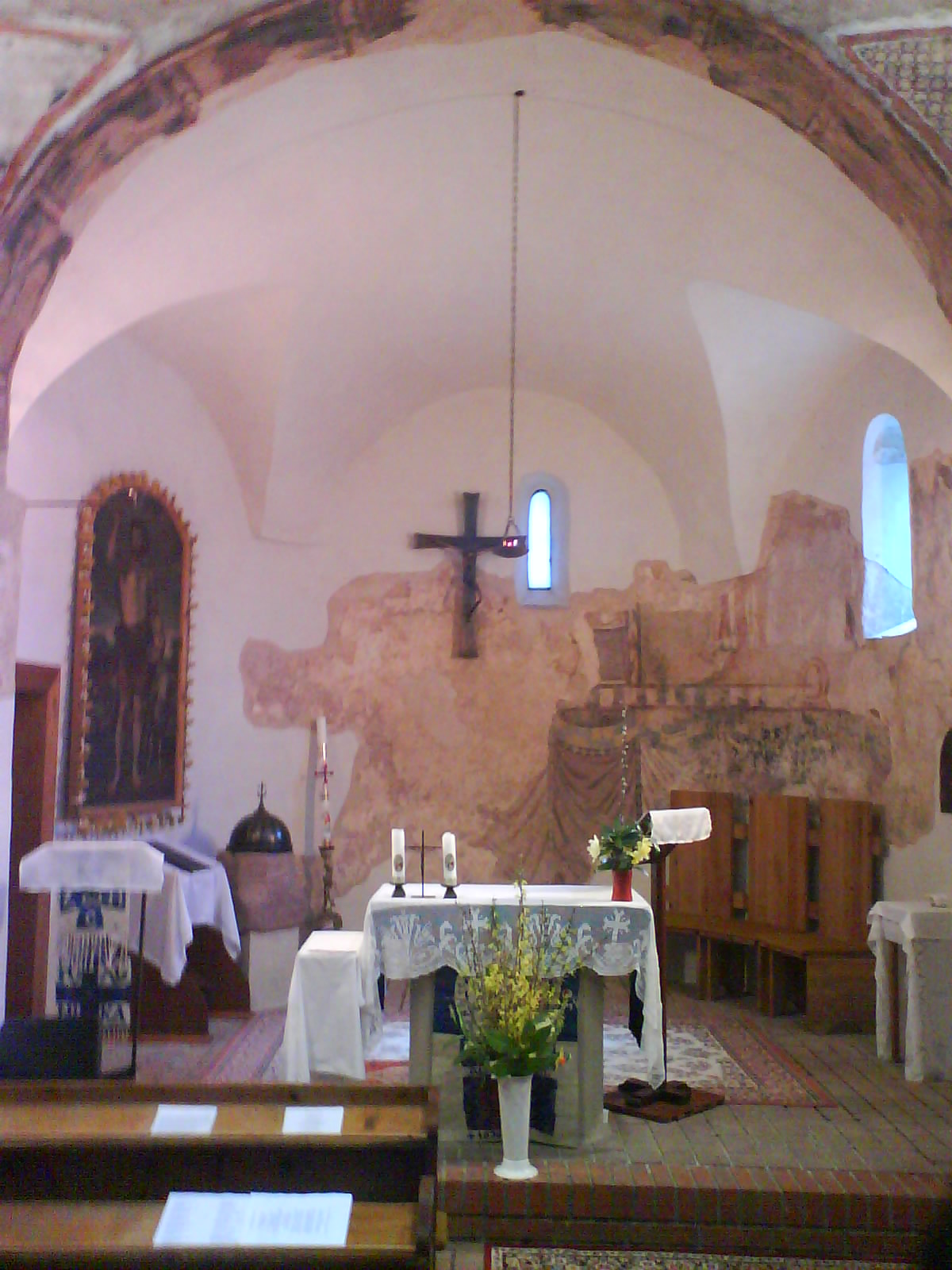 The altar of the church of Cserkút, Hungary.